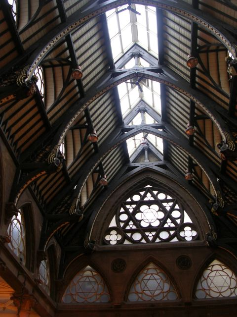 Roof of Bradford Wool Exchange - Market Street, Bradford, West Yorkshire, England. It is now a Waterstones Book Shop.